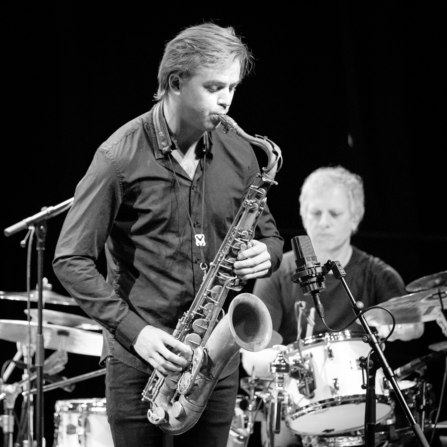 Marius Neset with Chick Corea's Akoustic Band in Kongsberg Musikkteater. The concert was part of Kongsberg Jazzfestival and took place on 06. July 2018 in Kongsberg. Lineup:Chick Corea (piano)John Patitucci (double bass)Dave Weckl (drums)Marius Neset (saxophone)